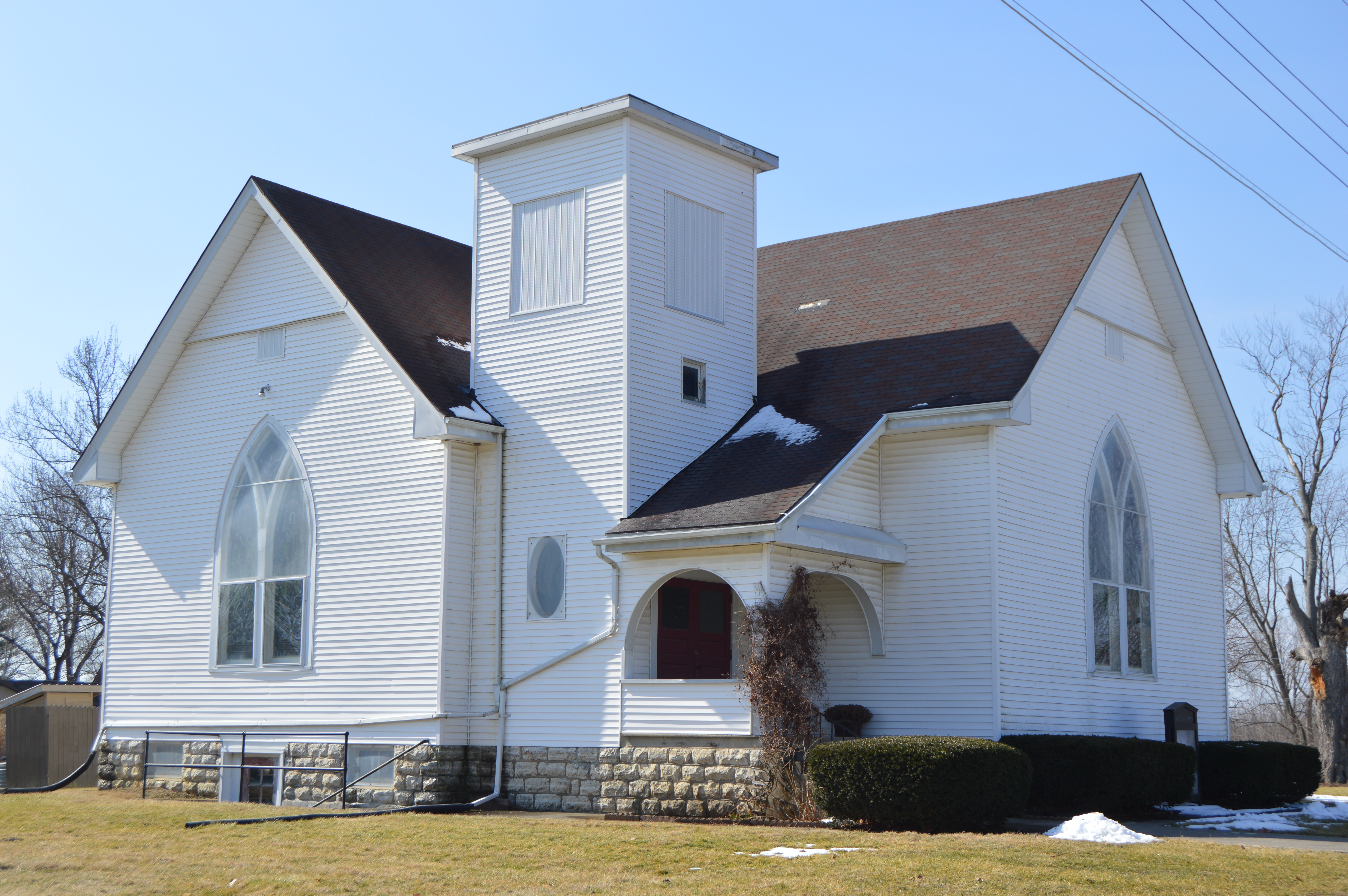 Front and eastern side of the former Paintersville United Methodist Church (originally Methodist Protestant Church, and now vacant), located on Walnut Street at Paintersville in Caesarscreek Township, Greene County, Ohio, United States.